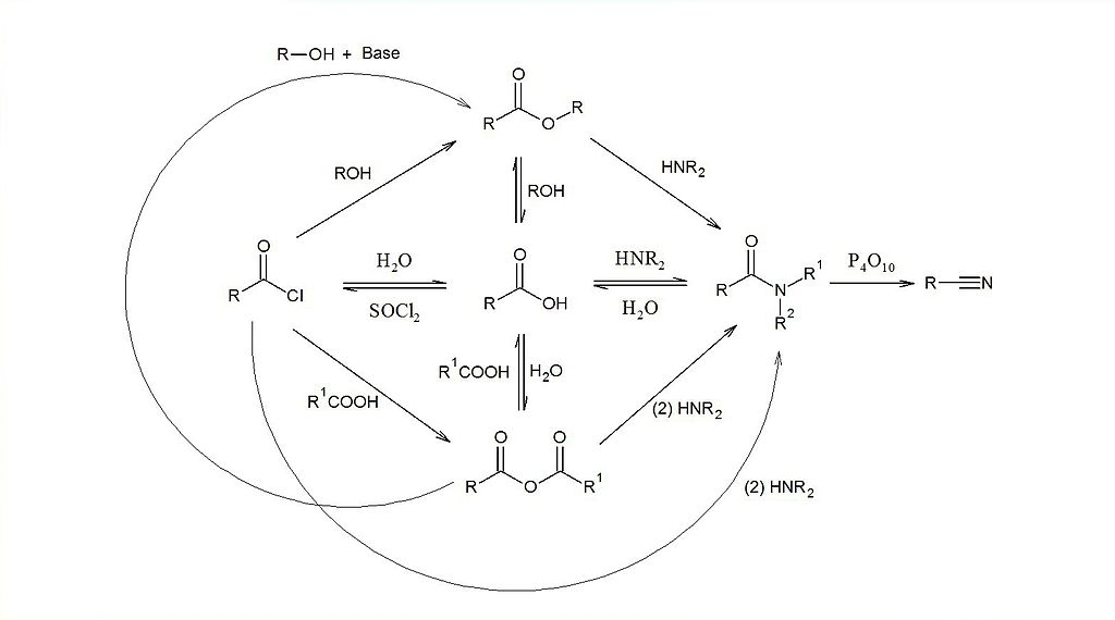 Carboxylic Acid Sunshine Diagram